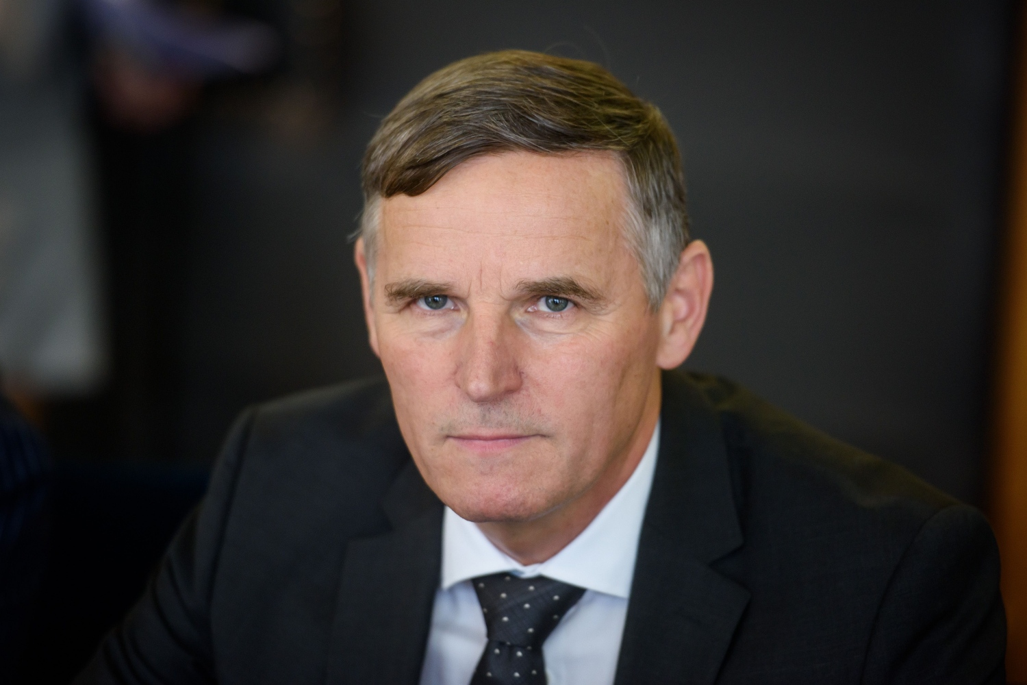 Andrej Bertoncelj - Republic of Slovenia - 13th government